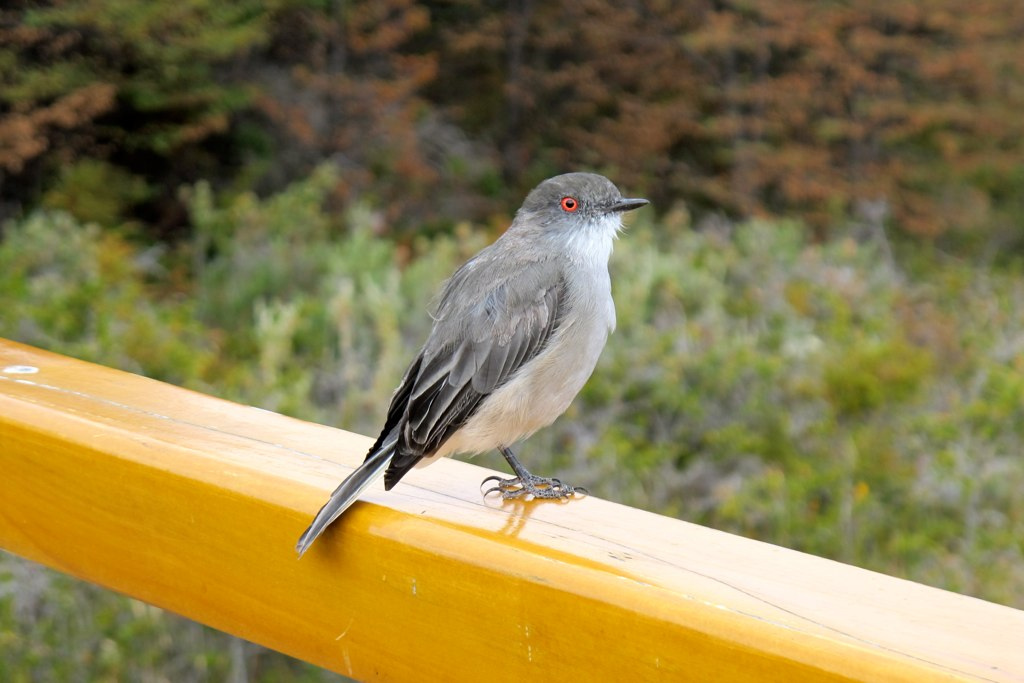 A Fire-eyed Diucon at Los Glaciares National Park, Santa Cruz province, Argentina.